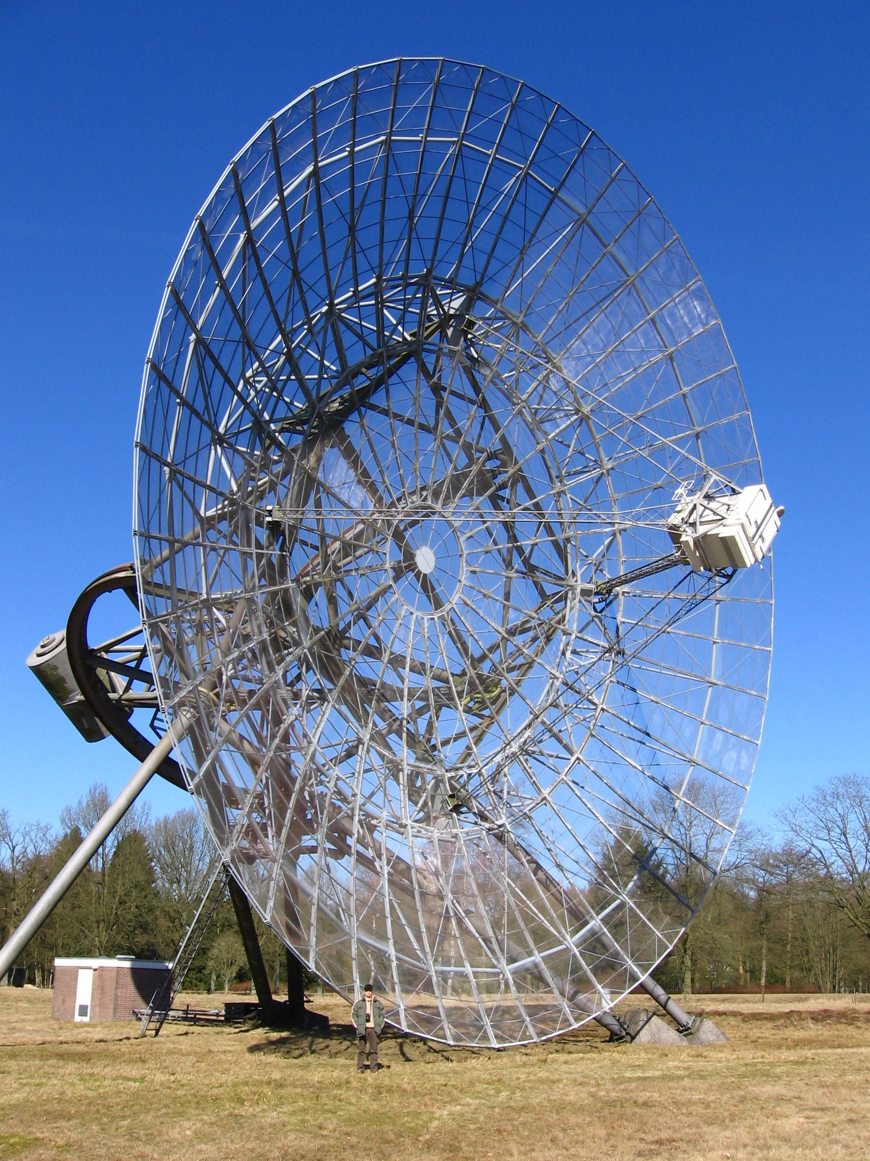 Westerbork 25m antenna - portrait